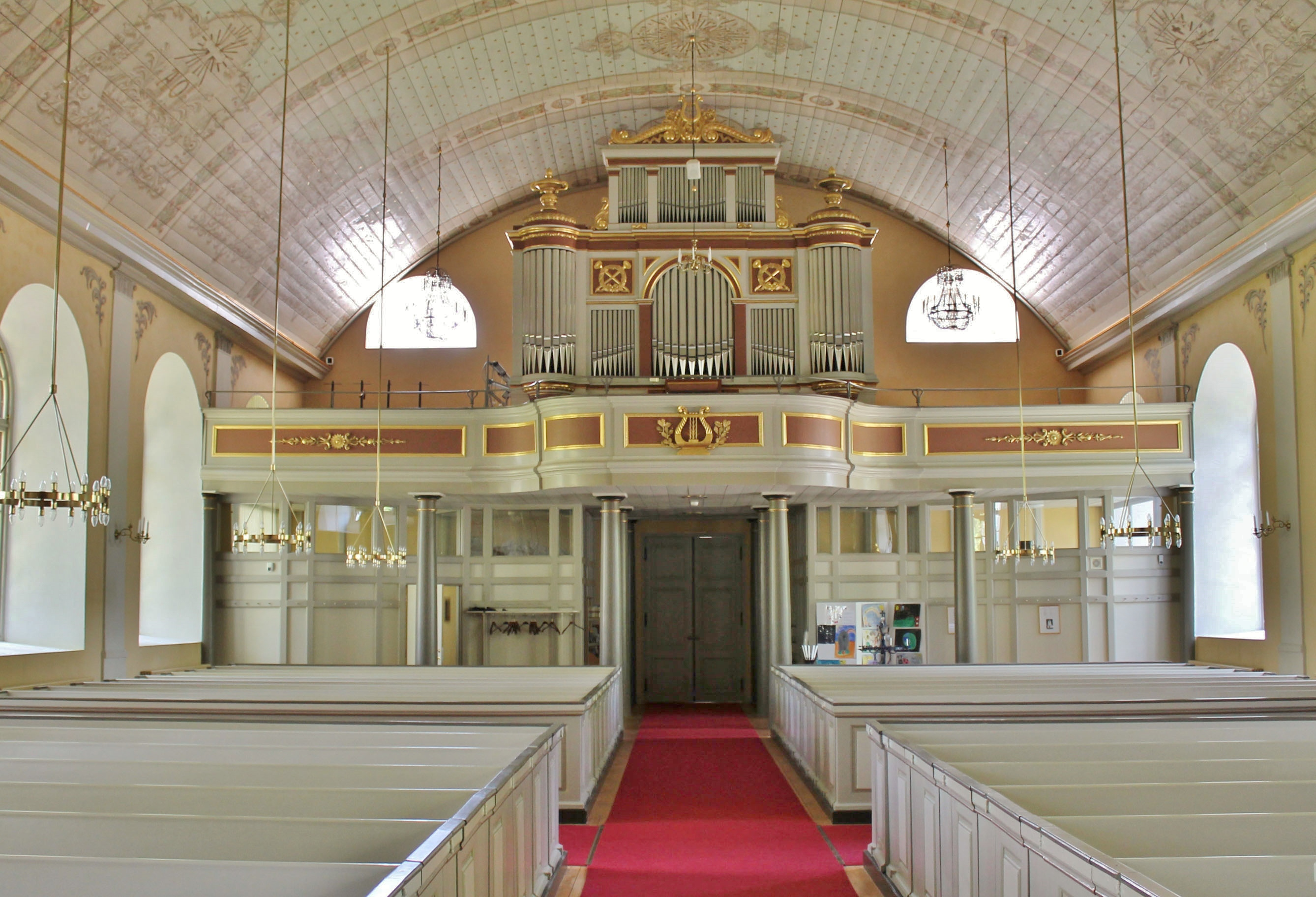 Östra Torsås church. The nave of the organ loft.